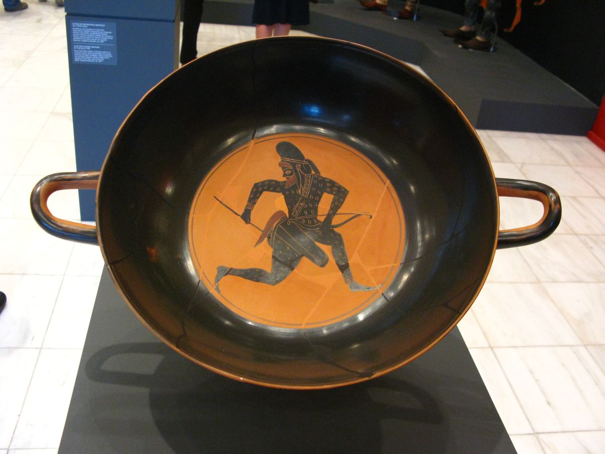 Skythian archer, Attic Black-figured Kylix (530-520 BC, by the Oltos painter. The inner circular area of the goblet is depicted with a Persian archer dressed in Persian-style trousers (alopedika). He holds his bow, while with his right hand he takes an arrow from the quiver (goryto).